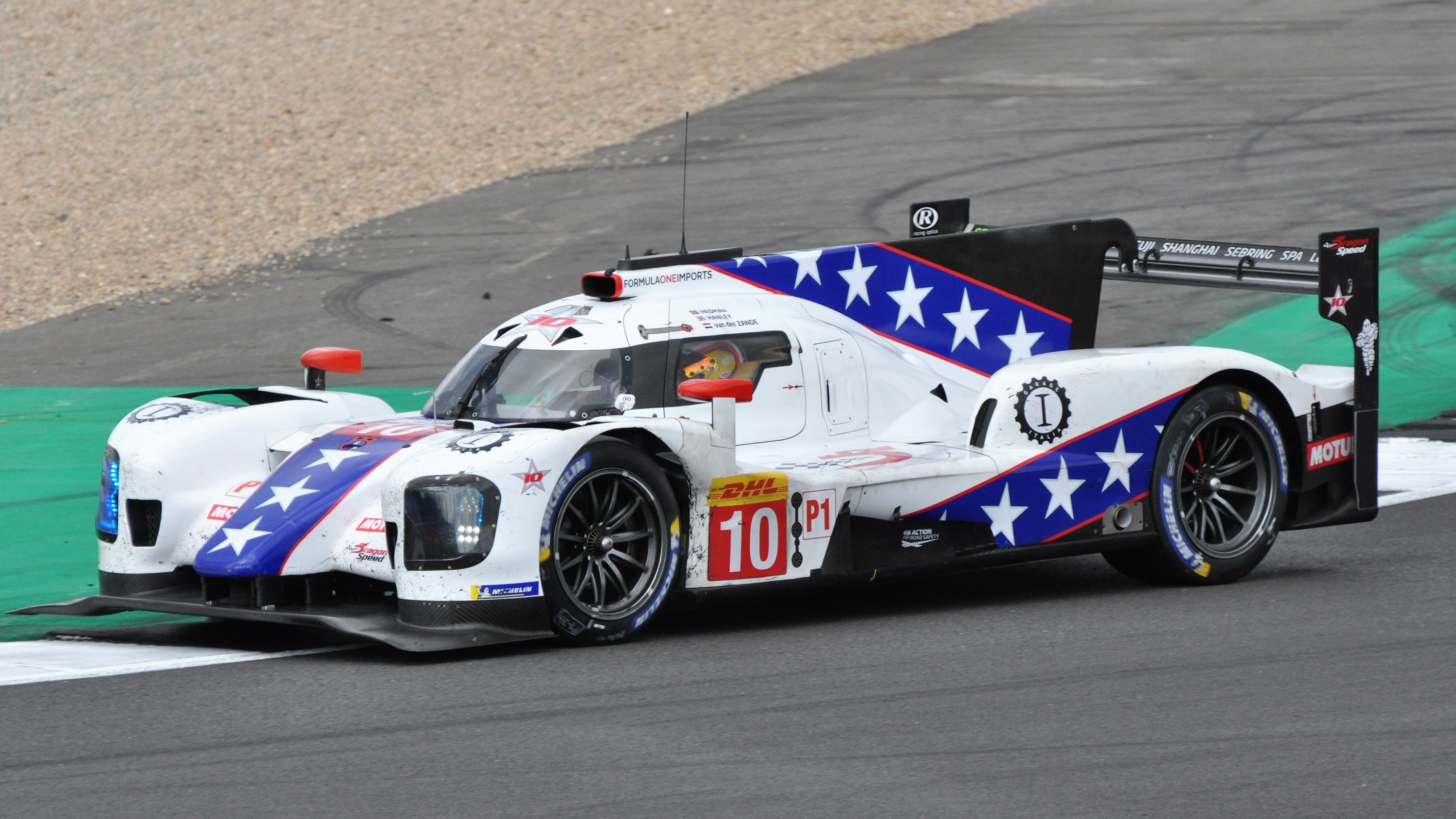 British driver Ben Hanley in the number 10 DragonSpeed-entered BR Engineering BR1, at Club corner during the 2018 6 Hours of Silverstone. Hanley and his co-drivers, Swedish driver Henrik Hedman and Dutchman Renger van der Zande, finished last in the LMP1 class, 28 laps behind the winning car.